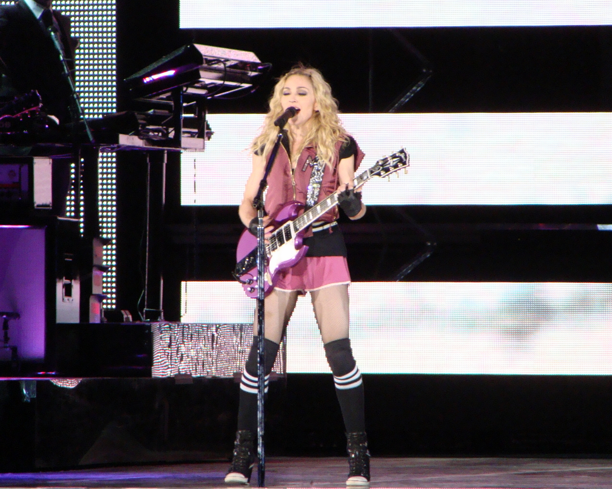 Photo of the concert